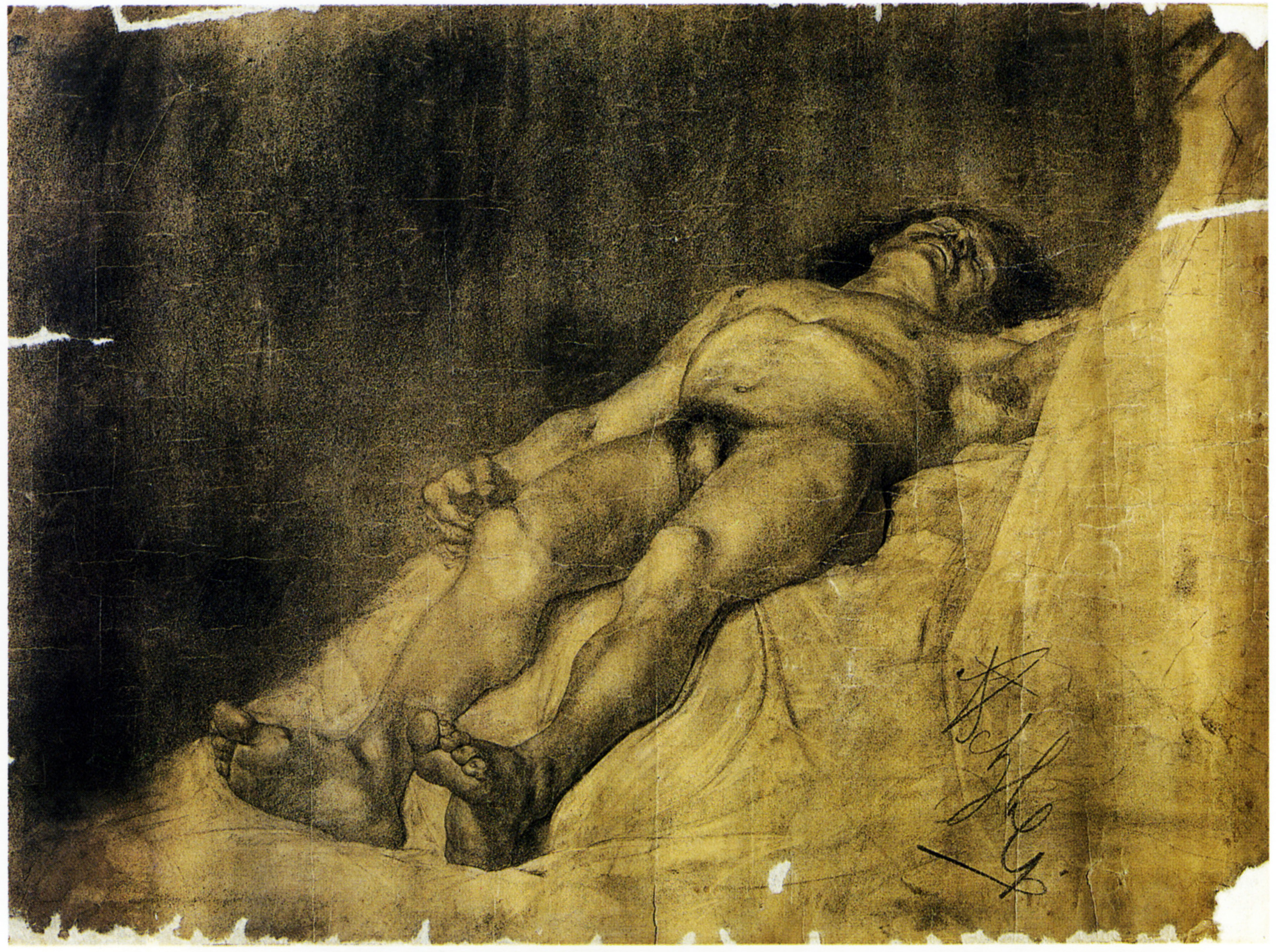 Study of a man, 1886